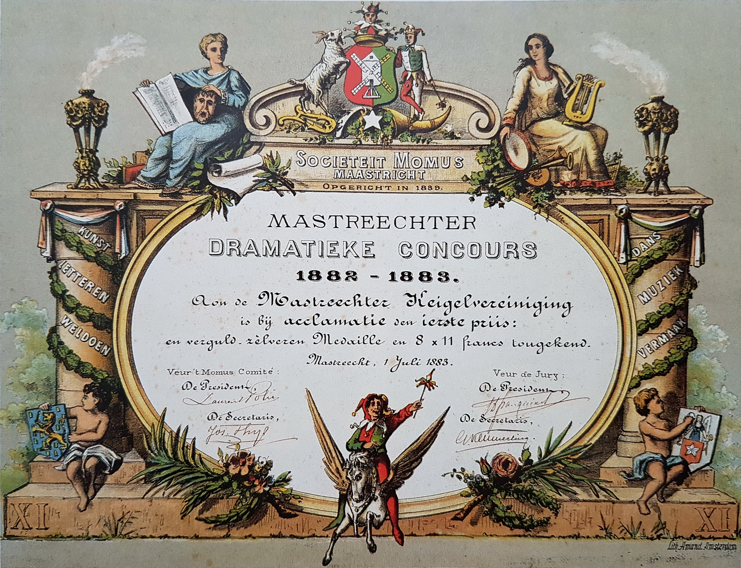 First prize certificate given by Gentlemens Club Momus (Sociëteit Momus) for a drama contest in 1882-83 in Maastricht, the Netherlands.